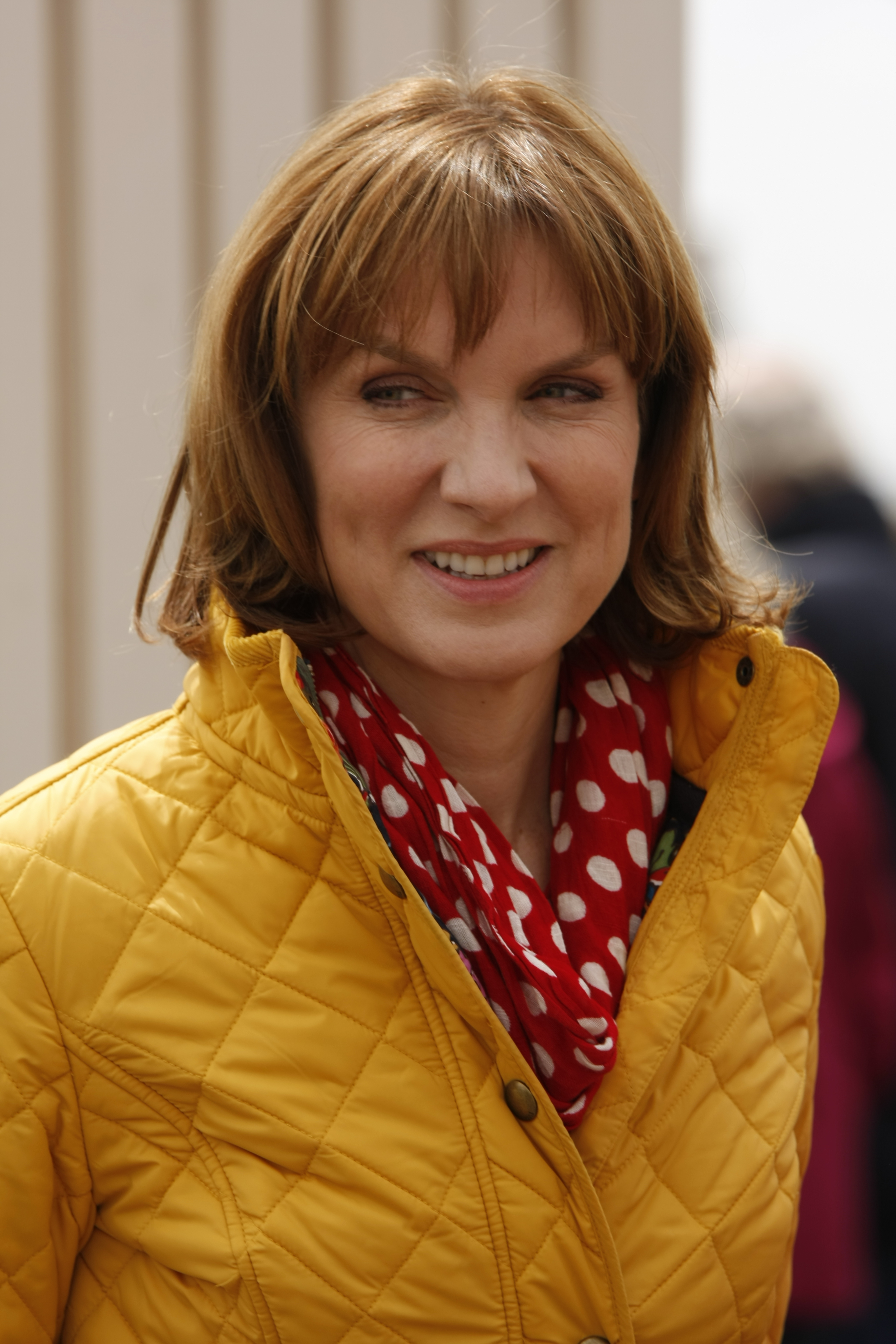 Fiona Bruce, Antiques Roadshow at the Bandstand Eastbourne 23rd May 2013